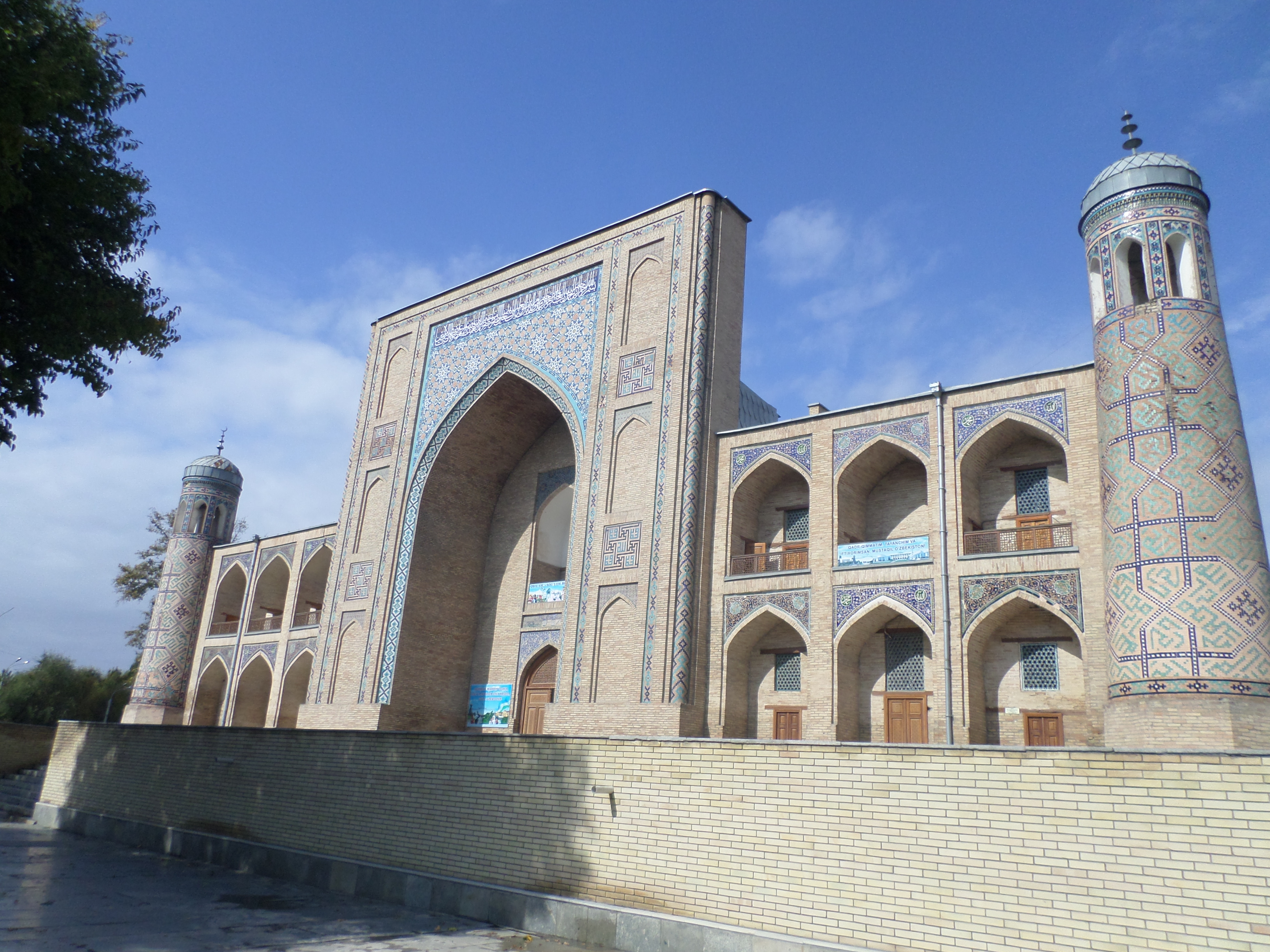 Madrasah Kukaldash (Tashkent)